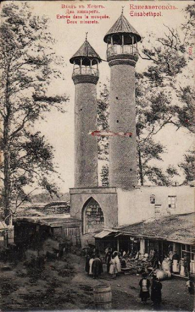 Shah Abbas mosque in Ganja, Azerbaijan. Second half of the 19th century.